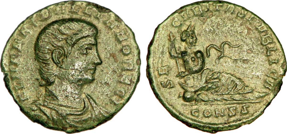 Centenionalis ou nummus à l'effigie de Flavius Hannibalianus Date : 336 Description revers : L'Euphrate couché à droite, s'appuyant sur un sceptre de la main droite ; au sol une urne déversant ses flots .